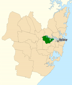 Incorporates or developed using Administrative Boundaries ©PSMA Australia Limited licensed by the Commonwealth of Australia under Creative Commons Attribution 4.0 International licence (CC BY 4.0). Derived from State and Territory Boundaries from the Australian Bureau of Statistics under Creative Commons Attribution 2.5 Australia license (CC BY 2.5 AU)